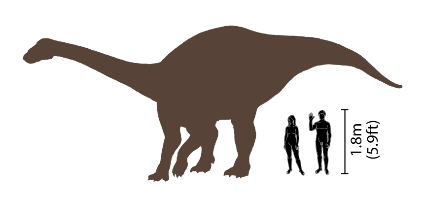 diagram by me user debivort, 1.07 Warning: Dino too big. Use "Riojasaurus size comparison v2.png"